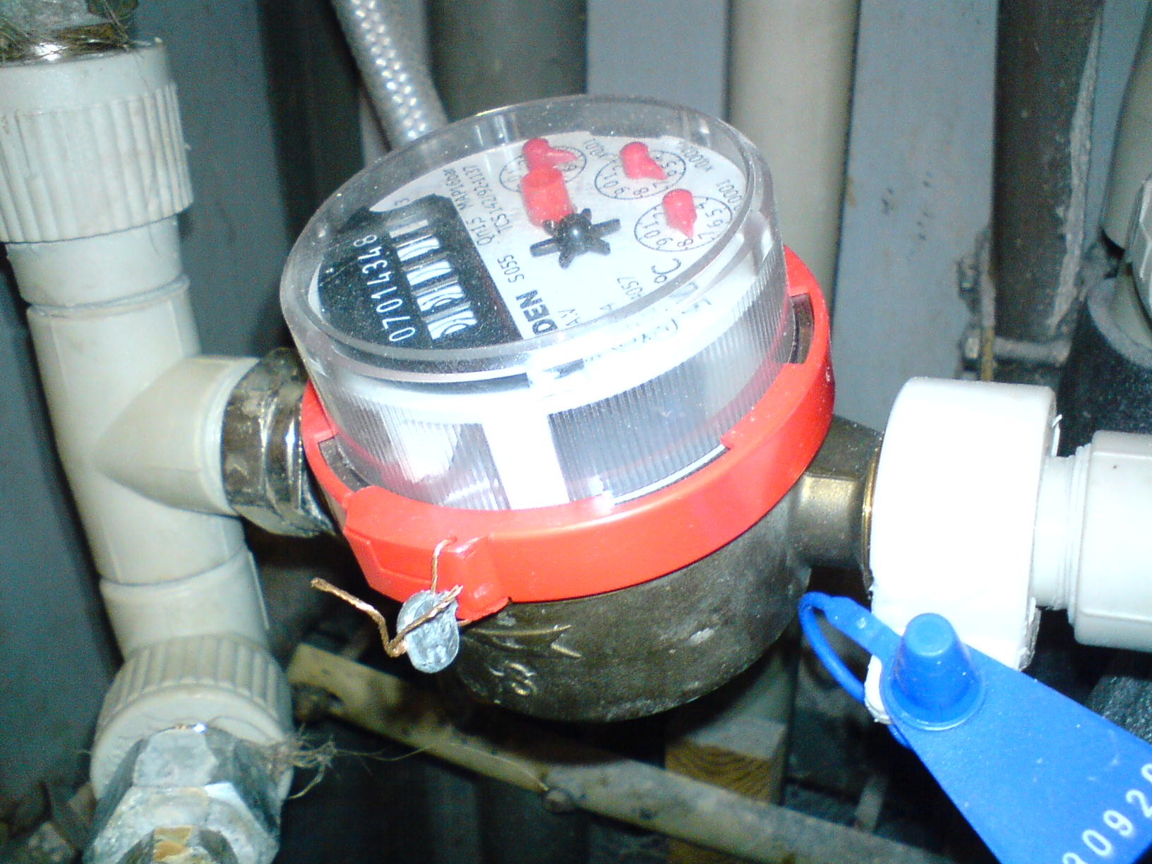 Water meter